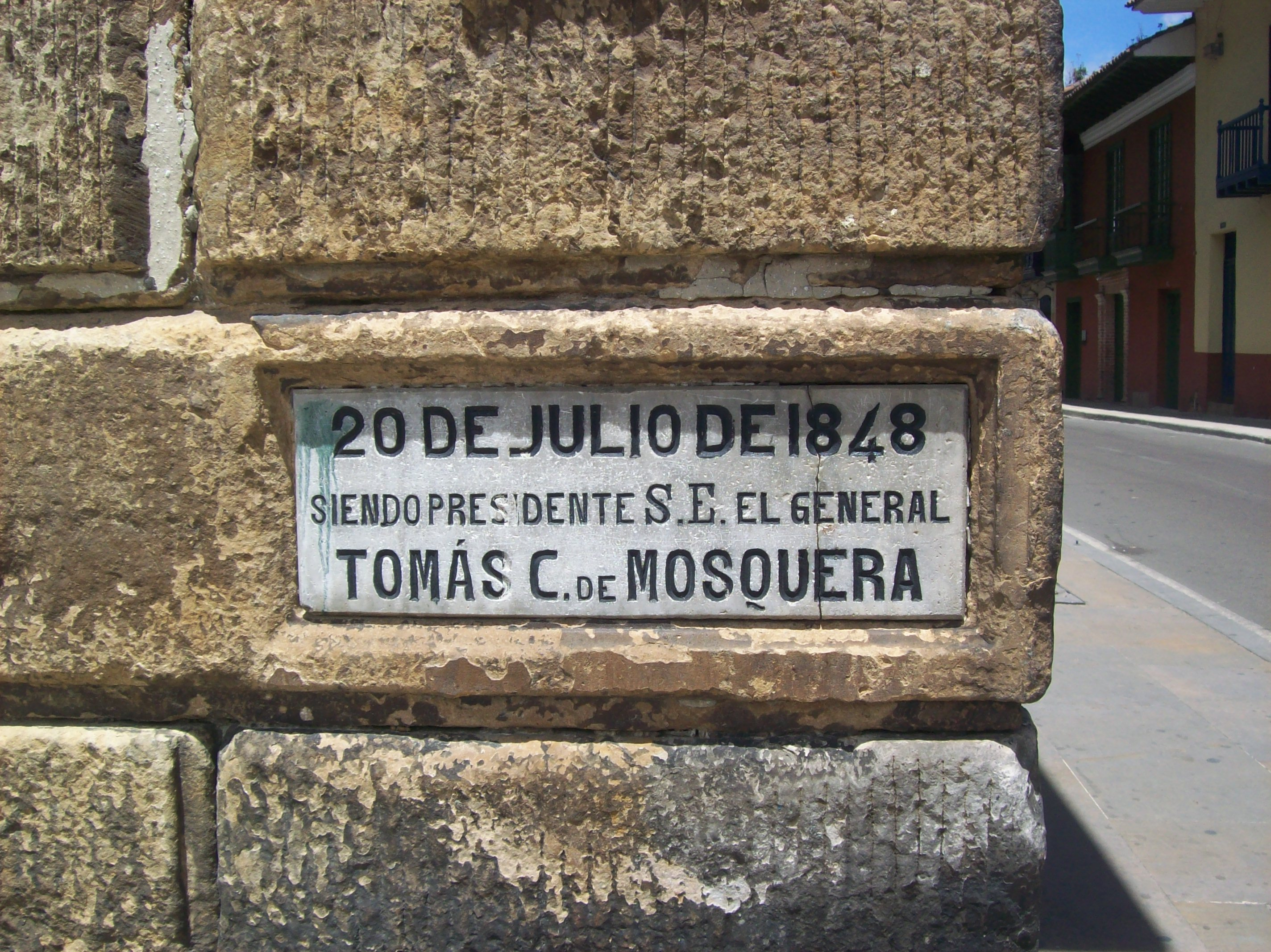 Corner stone in Capitolio Nacional de Colombia (Bogotá)